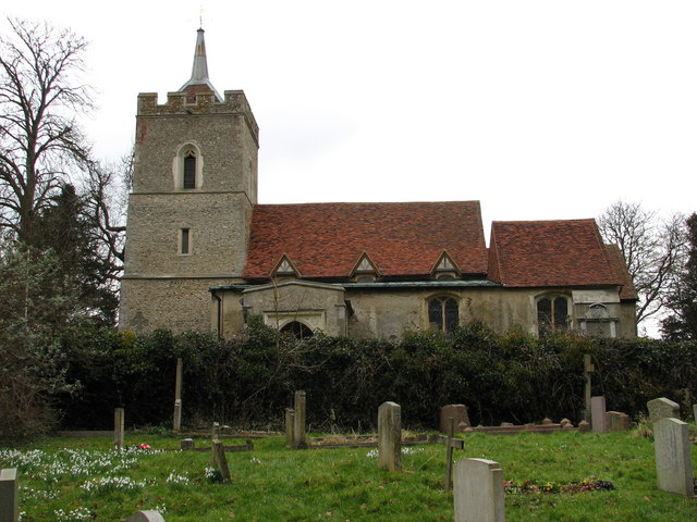 St. Mary's Church - Aspenden, Hertfordshire. This church dates back to the 11th century, although the majority of the building is 14th century. Inside, there are a number of fine medieval tombs, one of which was brought here from St. Michael's Church, Cornhill, after the Fire of London.